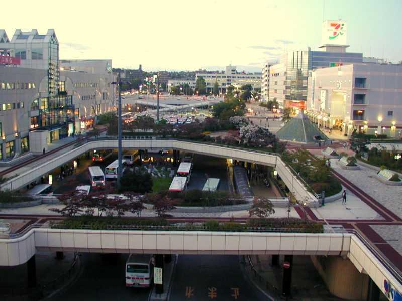 Izumi-Chuo terminal, newly developed city center in northern Sendai.